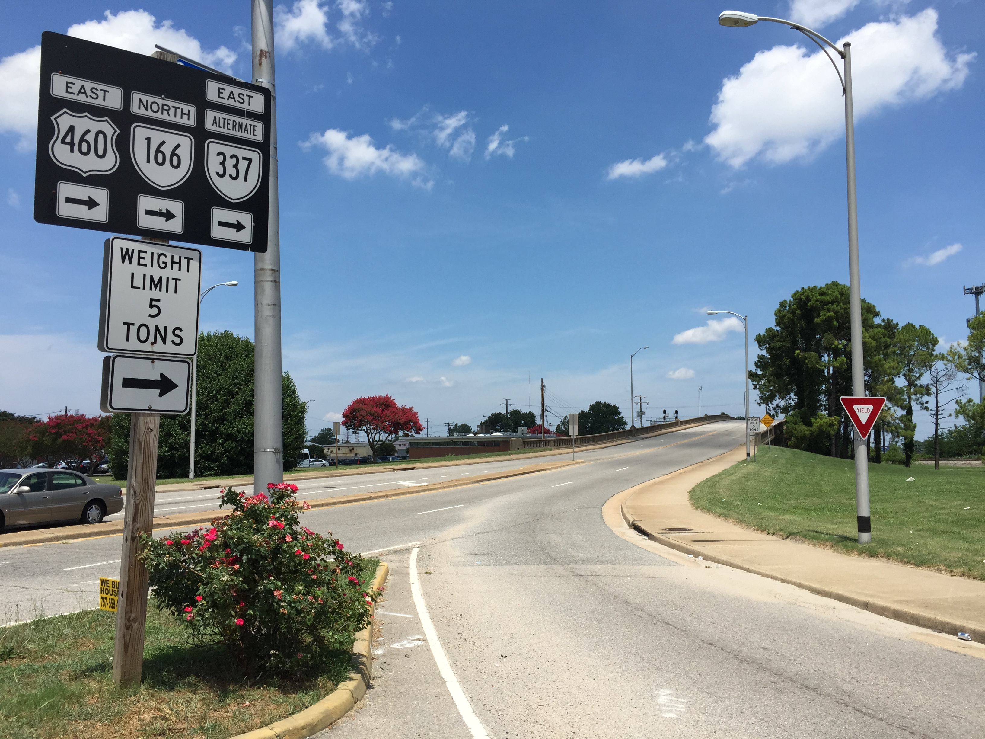 View east along U.S. Route 460 and Alternate Virginia State Route 337 and north along Virginia State Route 166 (22nd Street) at Liberty Street in Chesapeake, Virginia